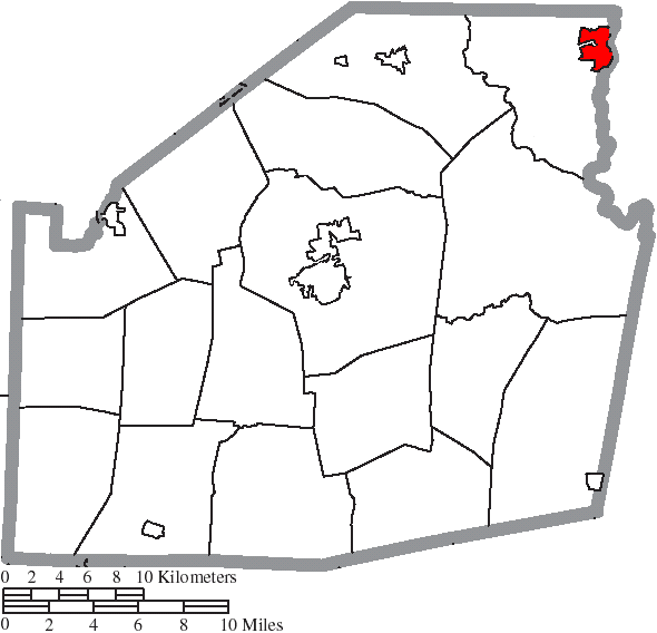 Map of the municipal and township boundaries of Highland County, Ohio, United States, as of the 2000 census, with the location of the village of Greenfield highlighted. Township borders are shown only in unincorporated areas in order to differentiate incorporated and unincorporated areas more clearly.